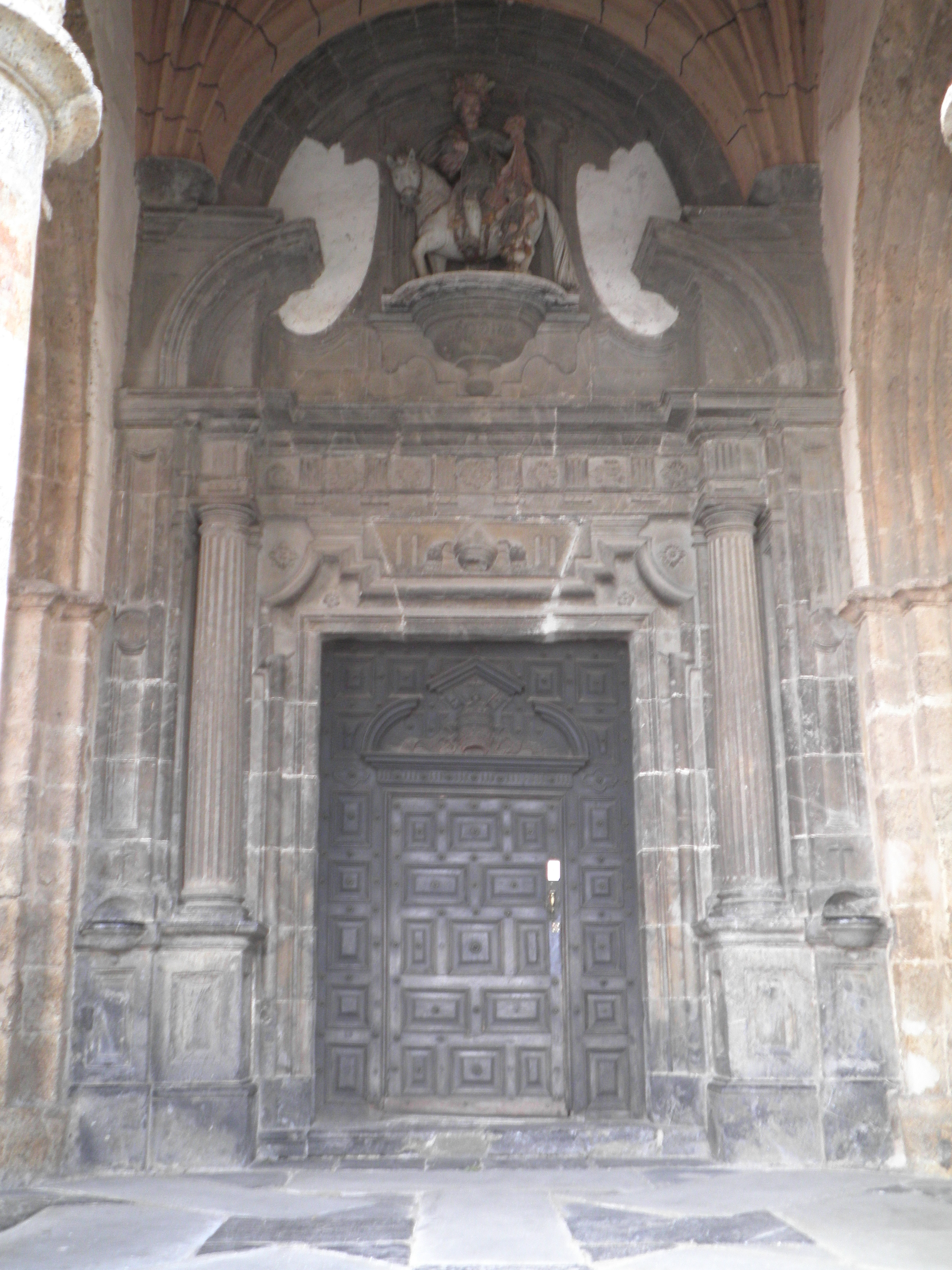 Church of Errezil.